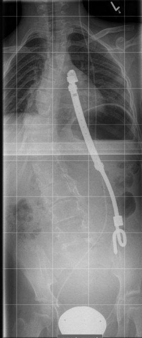 Same patient post surgery with VEPTR implantation